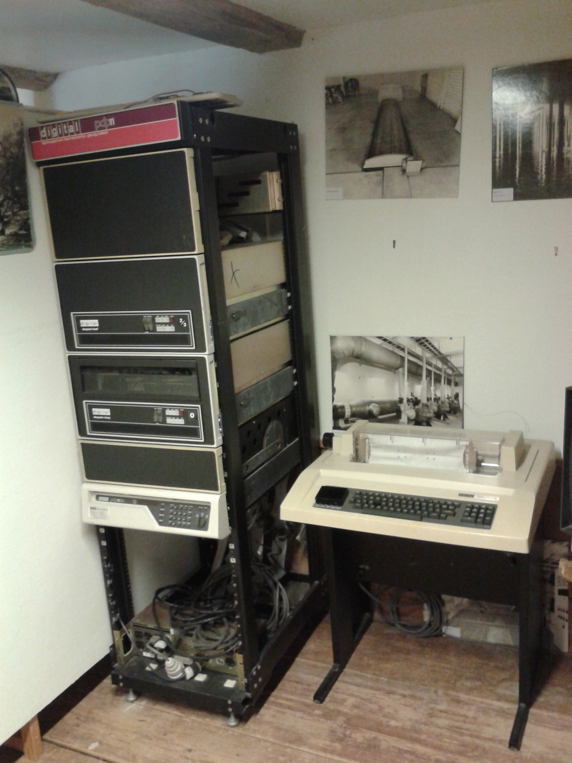 A PDP-11 mini computer and Decwriter hard copy terminal, probably from the 1980s, at Gamla Linköping, Linköping, Sweden. This is one of the smaller (more recent, probably not 1970s) versions of PDP-11.